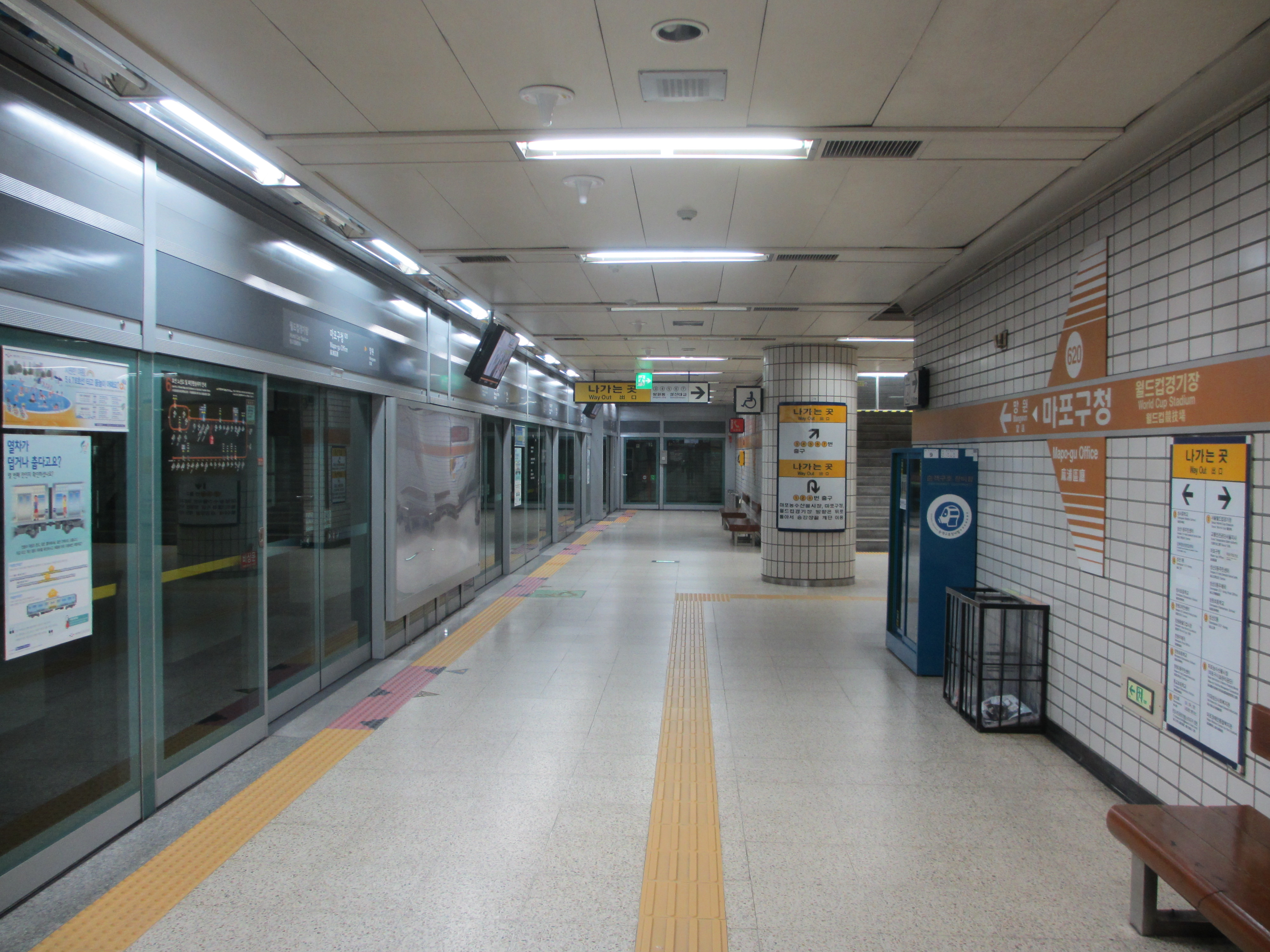 Mapo-gu Office Station Platform.